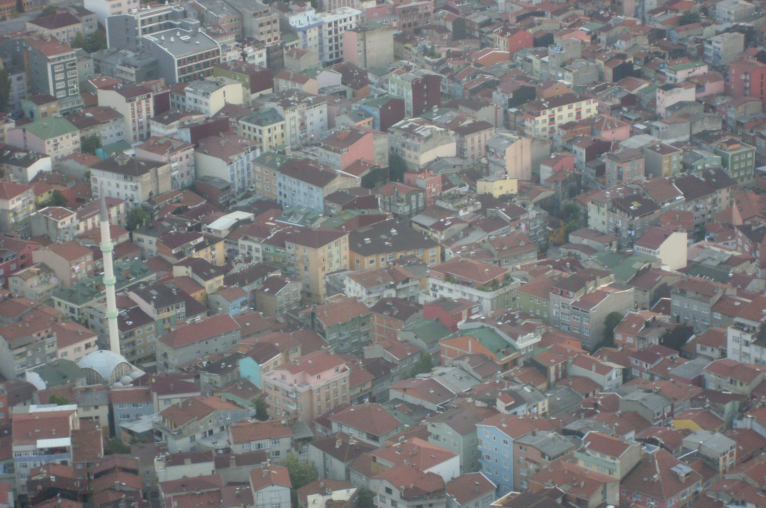 Gültepe Telsizler Mah Sapphire Teras